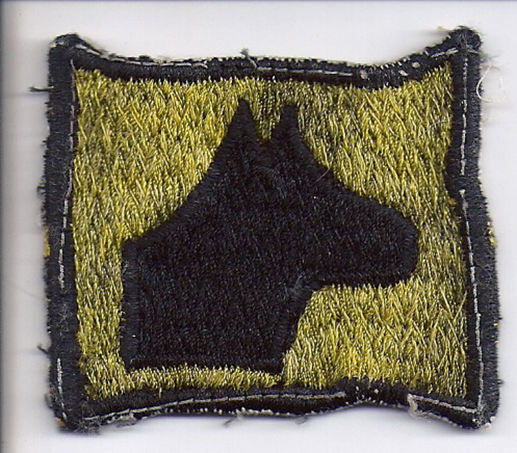 Vietnam-era Sentry Dog Qualification Patch from 267th Chemical Company, Okinawa. Japan made. This patch is mentioned in the John Burnnam book A Soldier's Best Friend.